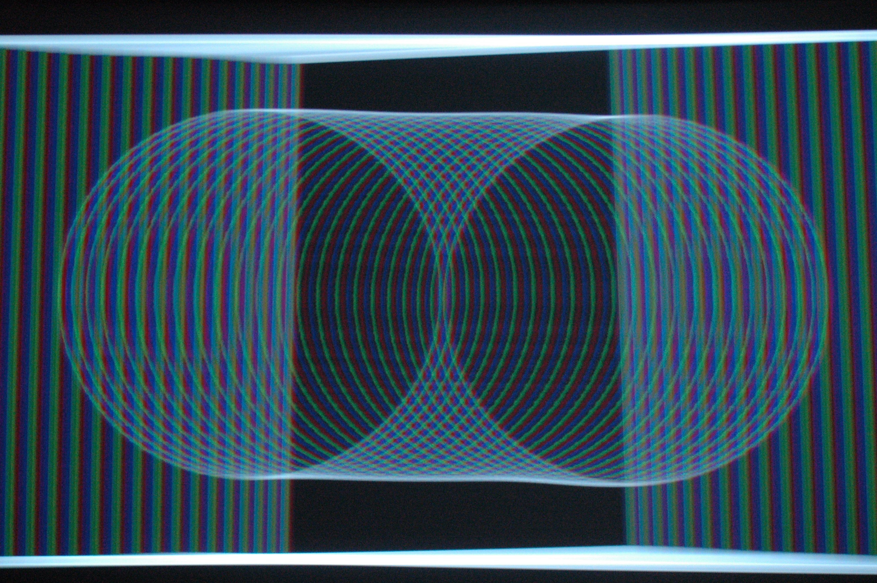 Testing circles and borders for making the "rainbow effet" visible, which is caused by a DLP-projector. The RGB-colours are visible at the edges of the lines. The photo was made by using a pan-shot Originalbild/Original photo: Image:Rainbow-Effect Regenbogeneffekt Original-Circle Originalkreis.jpg